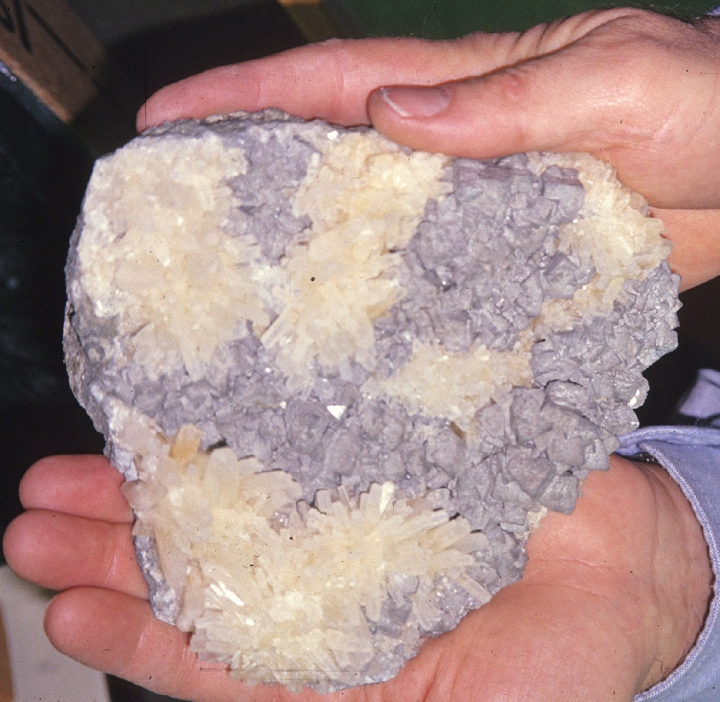 Native Antimony and Calcite - Locality: „Consolidated Durham Mines and Resources Ltd. Mines“, Lake George, York County, New Brunswick, Canada - Specimen from the collection of the Seaman Museum, Houghton, Michigan, USA